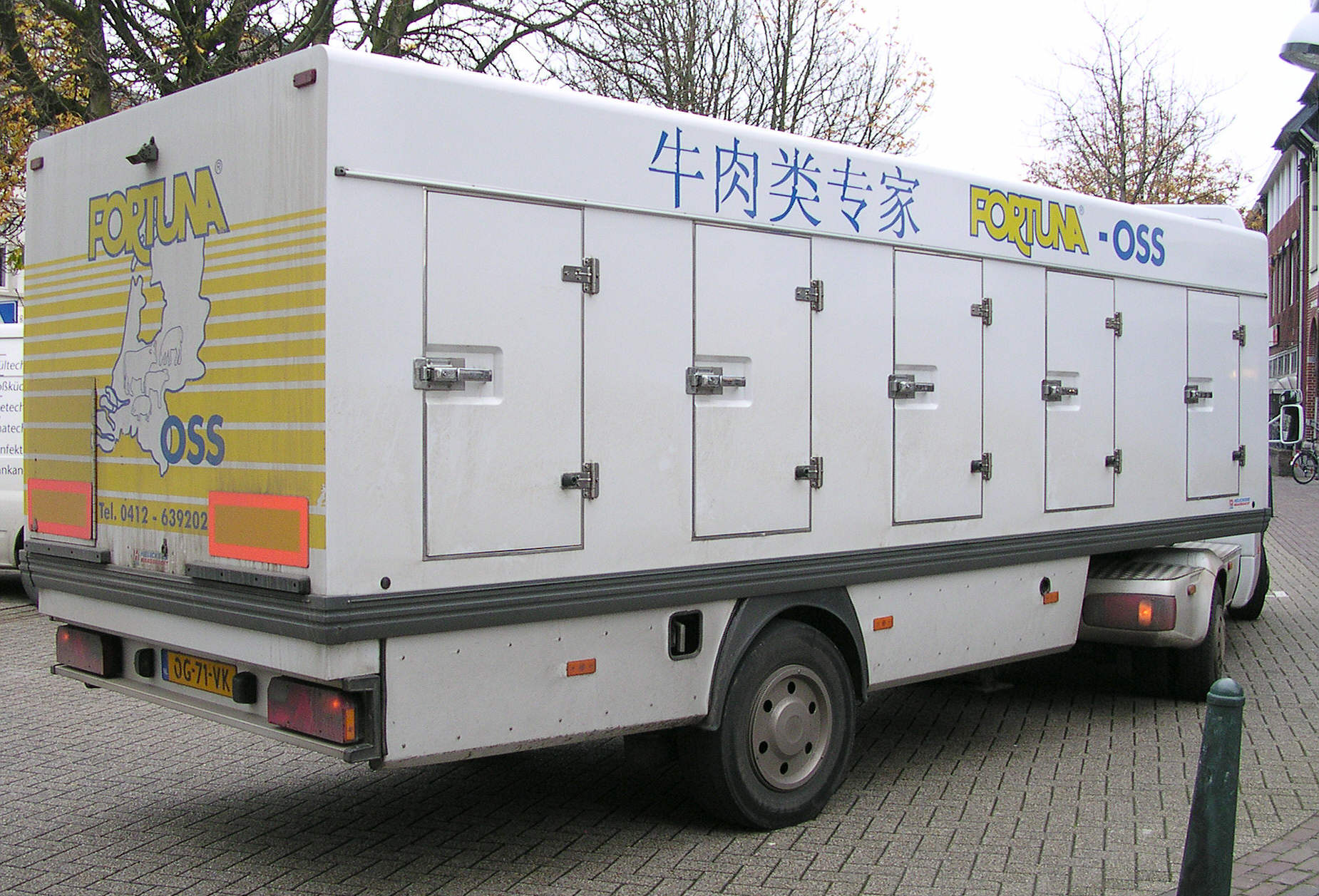 Mercedes Benz Sprinter with refrigerator trailer